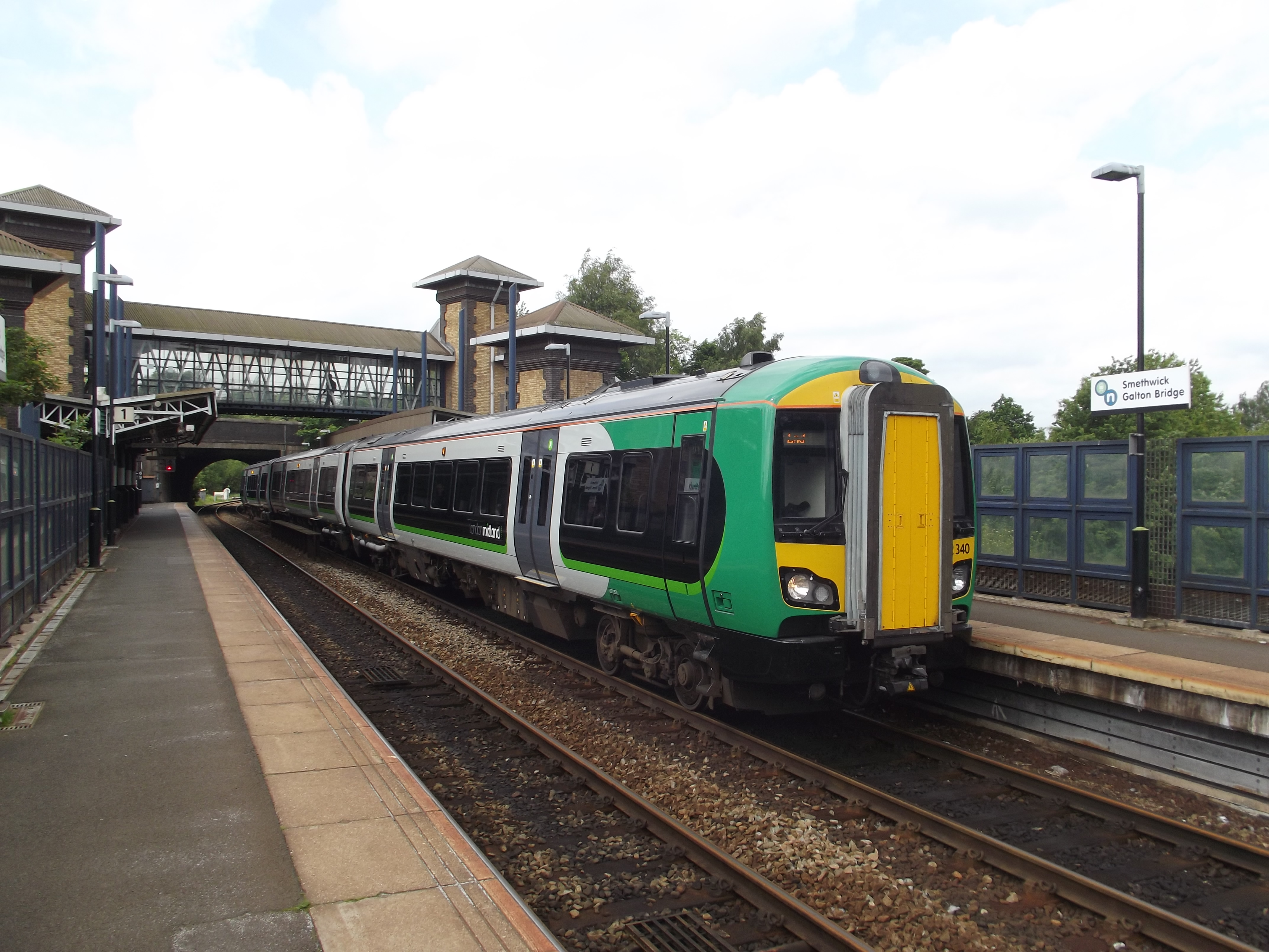 Another nice day in June free of rain, so I decided to try my new Fujifilm FinePix S2980 out at Smethwick Galton Bridge (including the railway, bridges and canals). This is Smethwick Galton Bridge Station - High Level (on the Snow Hill lines). London Midland Class 172 trains at Smethwick Galton Bridge High Level. 172 340 waiting at Platform 2 heading towards Whitlocks End.